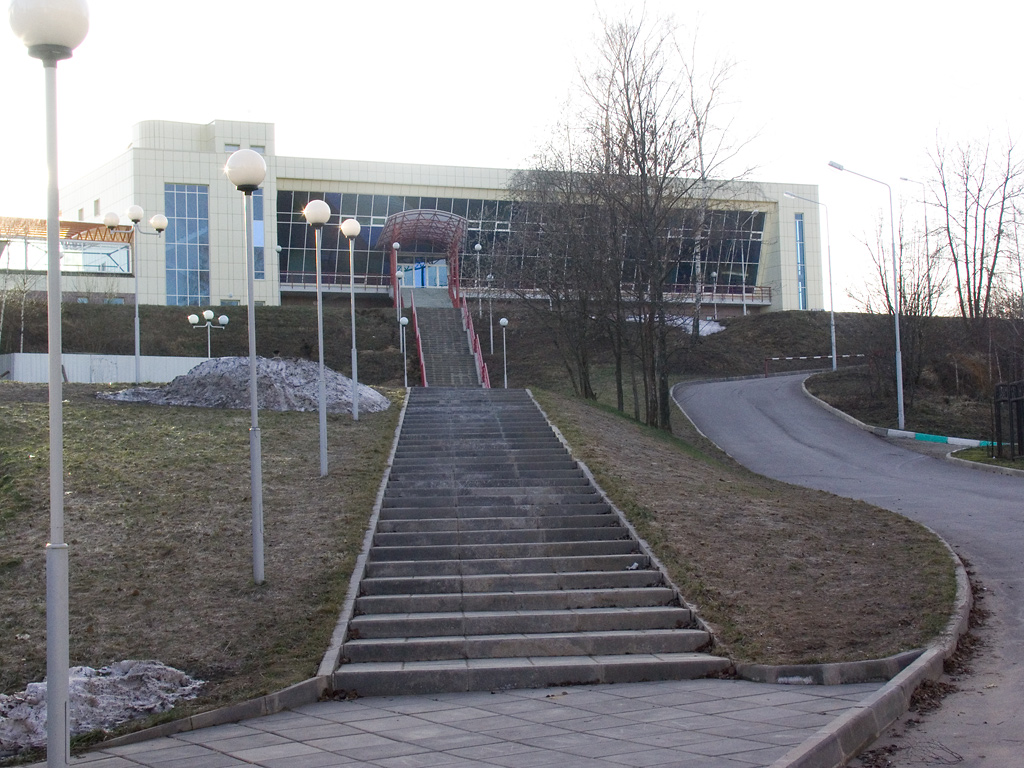 Cross-country-skiing stadium in Krasnogorsk, near Moscow